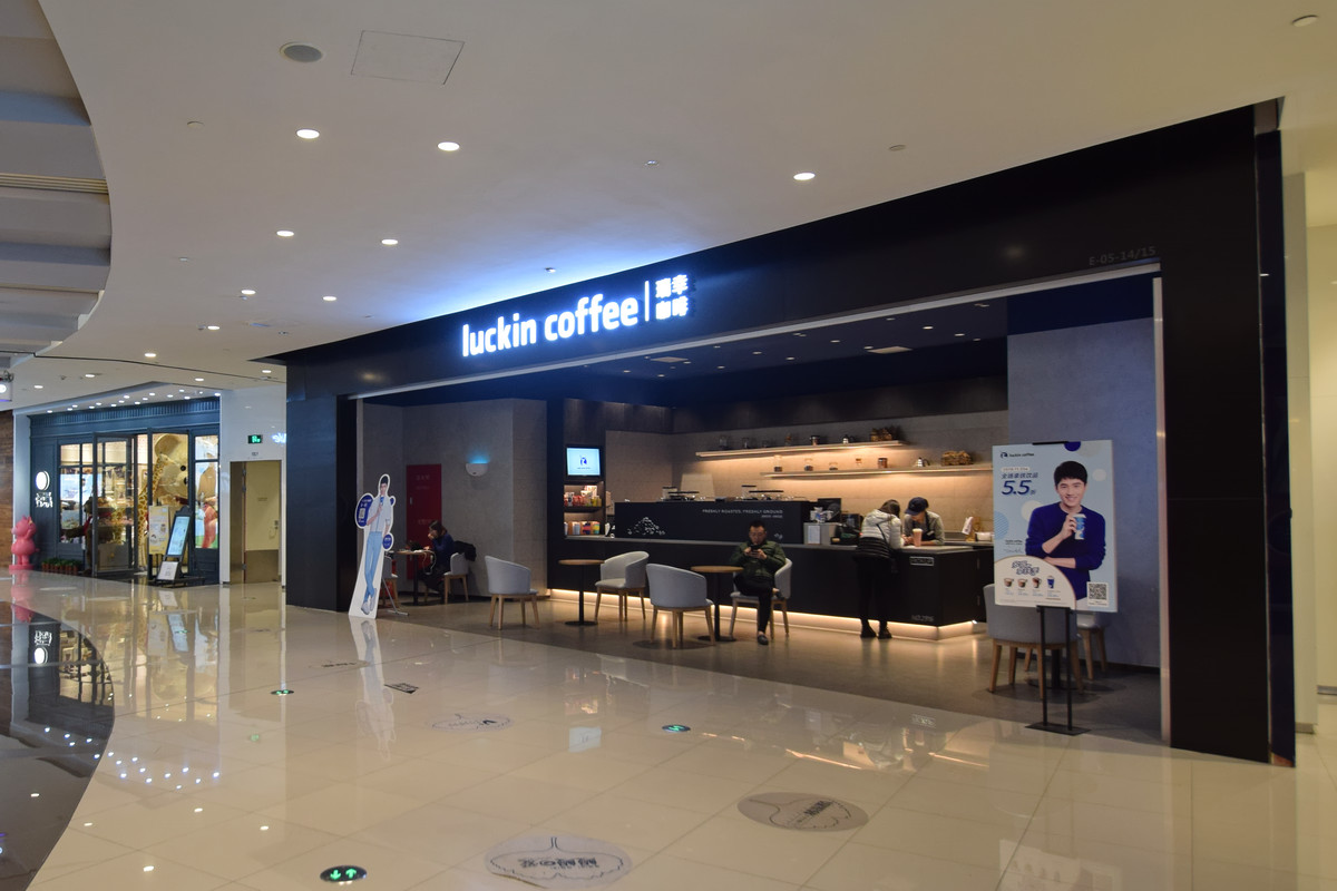 Luckin Coffee at Raffles City Changning, Shanghai